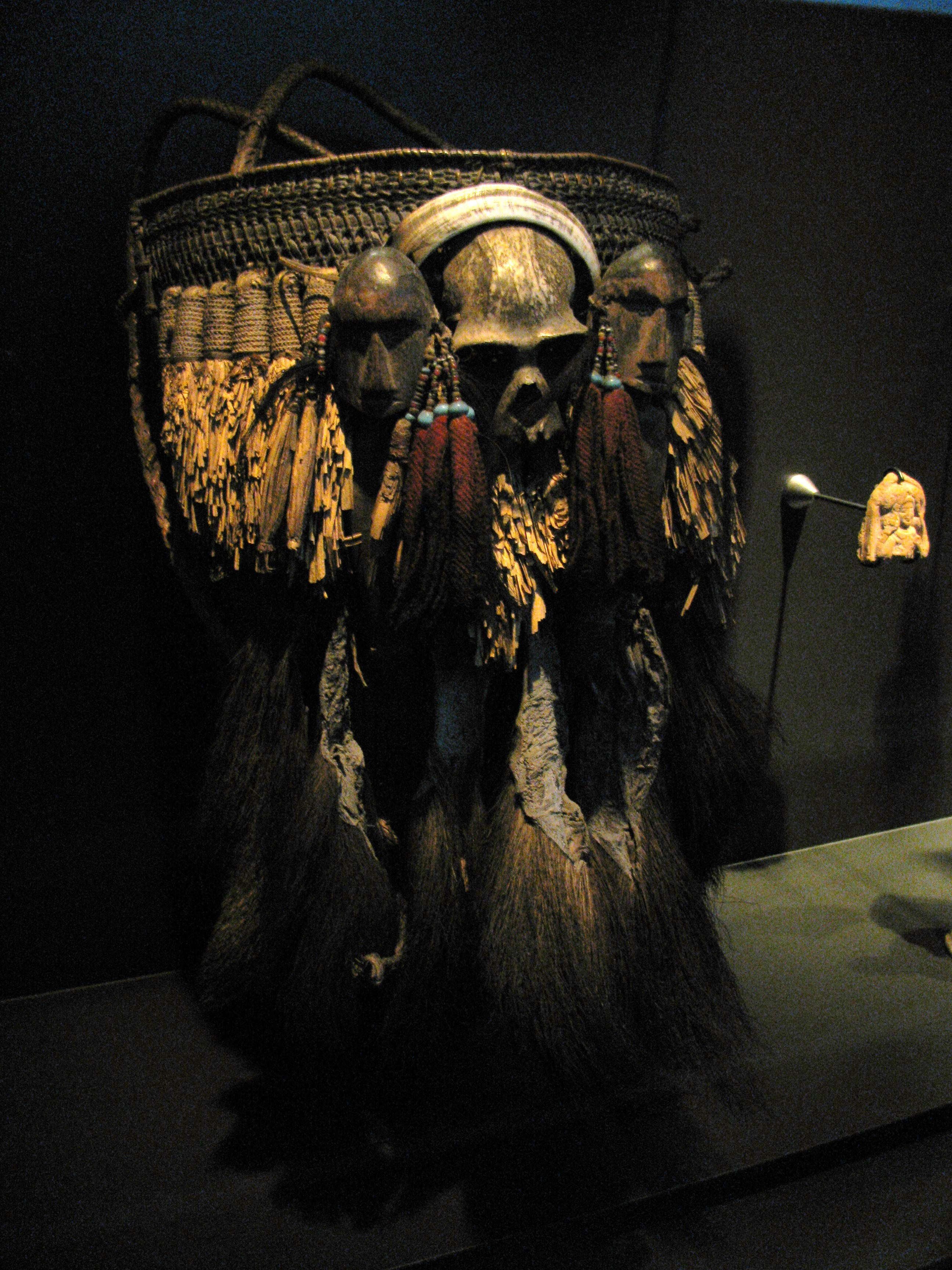 Ceremonial basket of the Konyak Naga (Nagaland, India) with a monkey´s skull and two human heads carved from wood. This basket is a status symbol. It may be a remembrance of the Nagas´old headhunting practices. State Museum of Etnology, Leiden, The Netherlands.